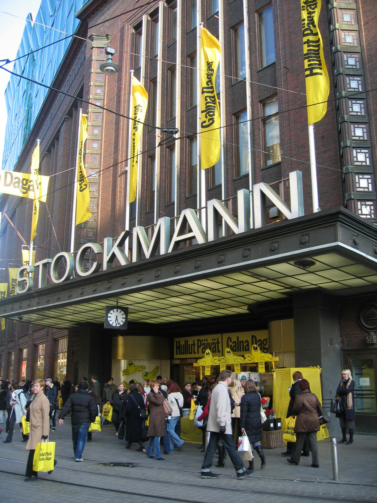 Stockmann's main entrance during Hullut Päivät campaign, Helsinki, Finland